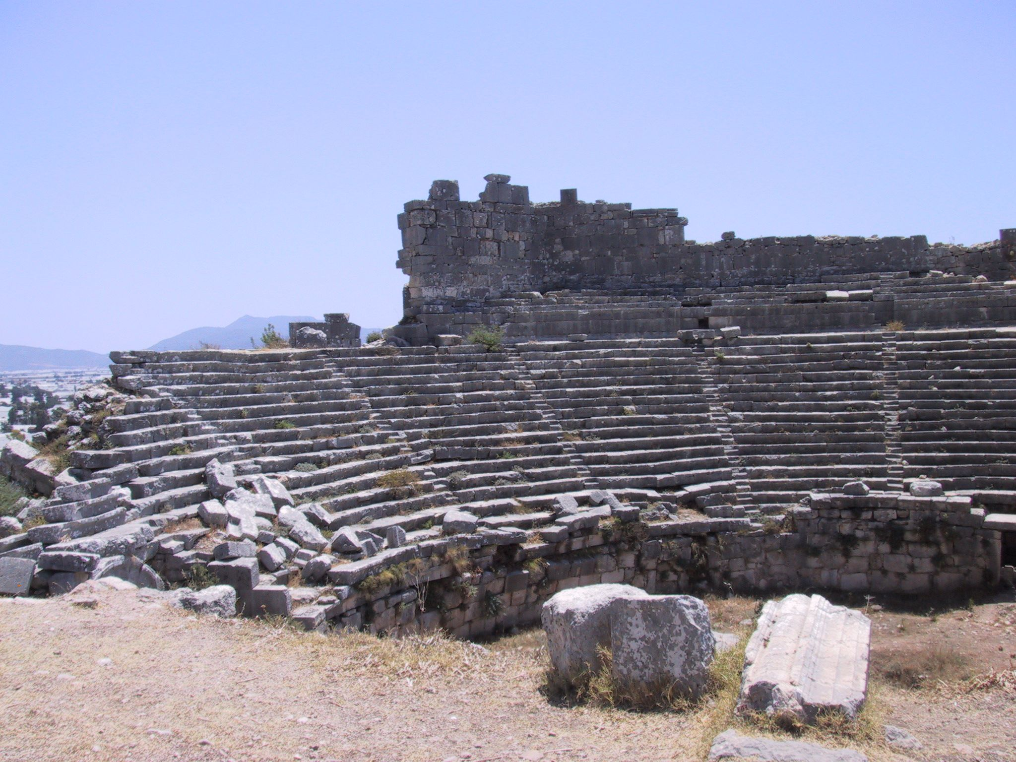 Theatre of Xanthos (Turkey)